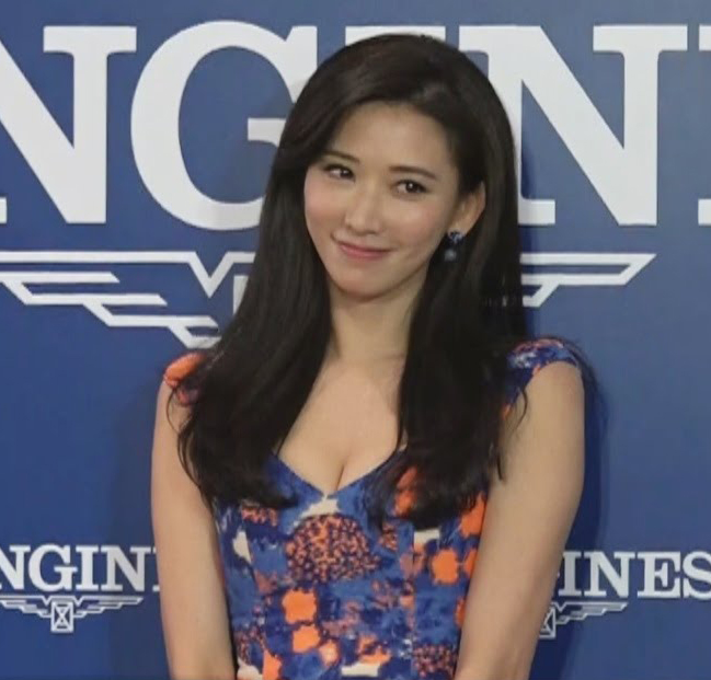 Lin Chi-ling (林志玲) attends a X'mas tree lighting charity event, hosted by Longines Taiwan, at the Taipei 101 shopping mall on 5 December 2014.